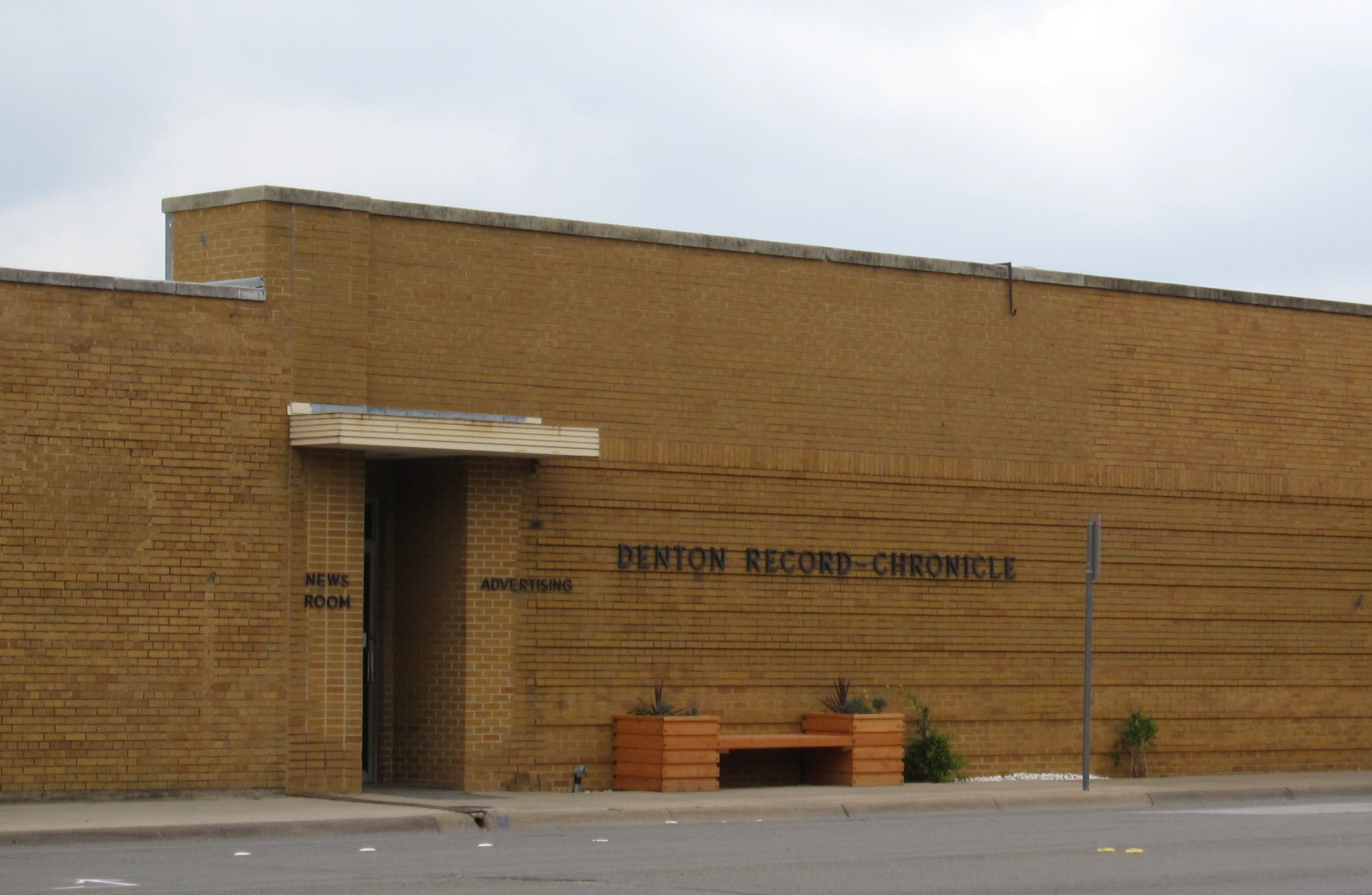 Denton Record-Chronicle newspaper